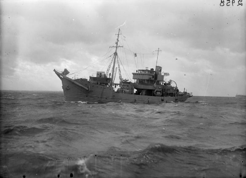 Photograph of British Portuguese class naval trawler HMT Promise.